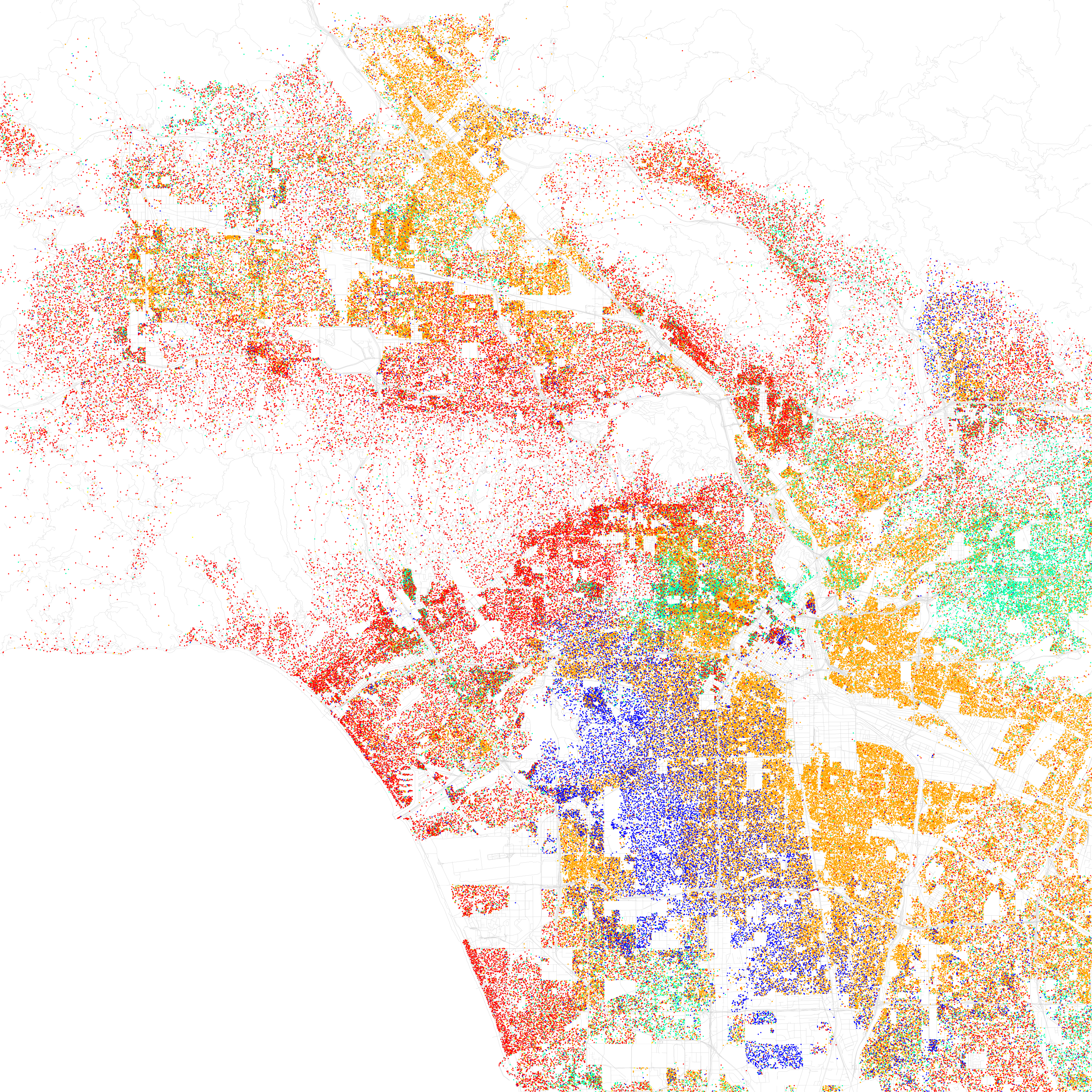 Maps of racial and ethnic divisions in US cities, inspired by Bill Rankin's map of Chicago, updated for Census 2010. Red is White, Blue is Black, Green is Asian, Orange is Hispanic, Yellow is Other, and each dot is 25 residents. Data from Census 2010. Base map © OpenStreetMap, CC-BY-SA